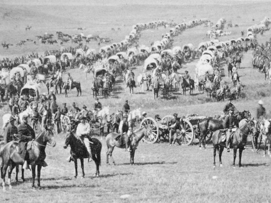 Cropped version of File:Column of cavalry, artillery, and wagons, commanded by Gen. George A. Custer, crossing the plains of Dakota Territory. B - NARA - 519427.jpg.